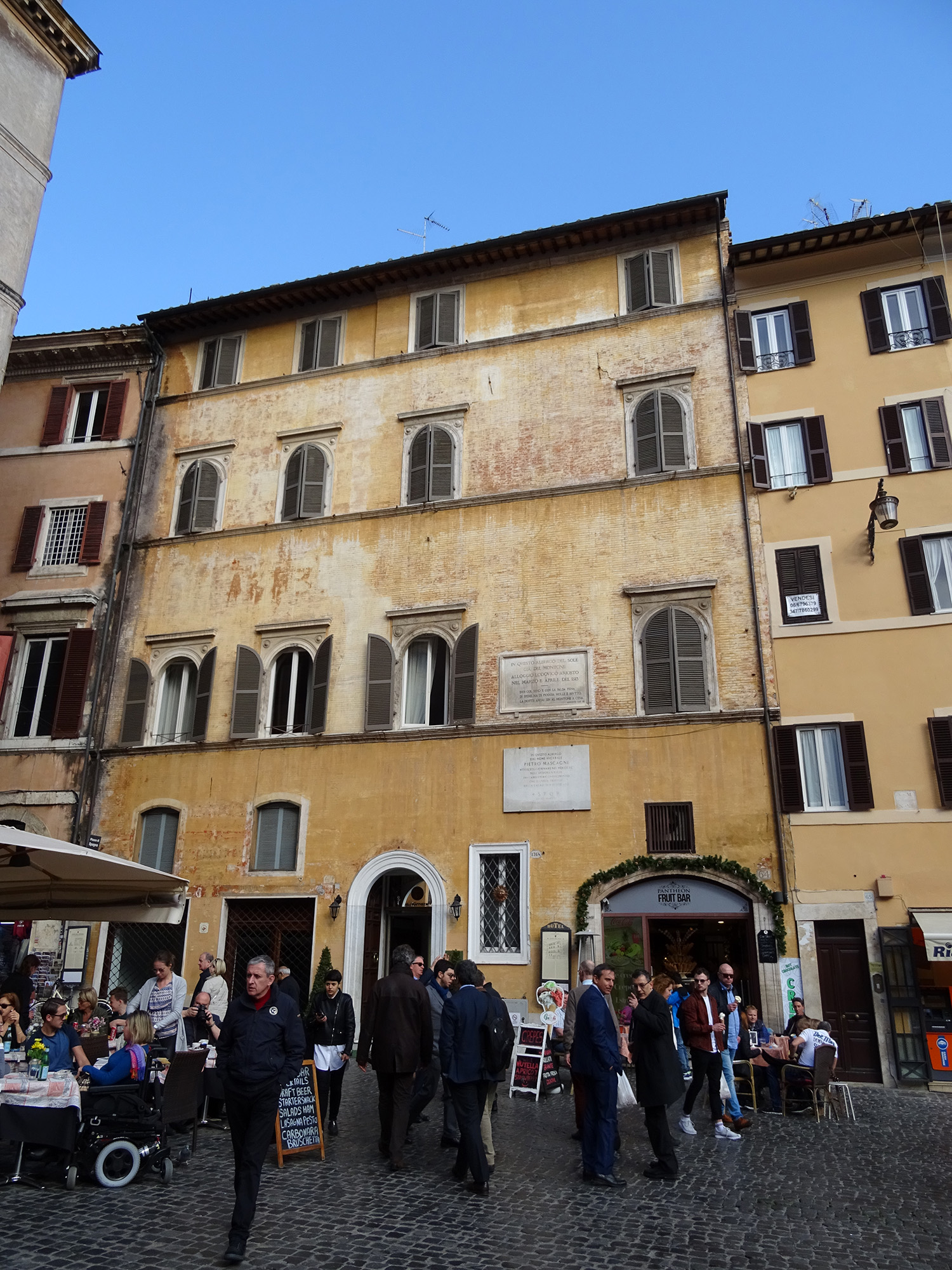 The Albergo del Sole, formerly Locanda del Montone, in Piazza della Rotonda in front of the Pantheon. Pietro Mascagni stayed here.